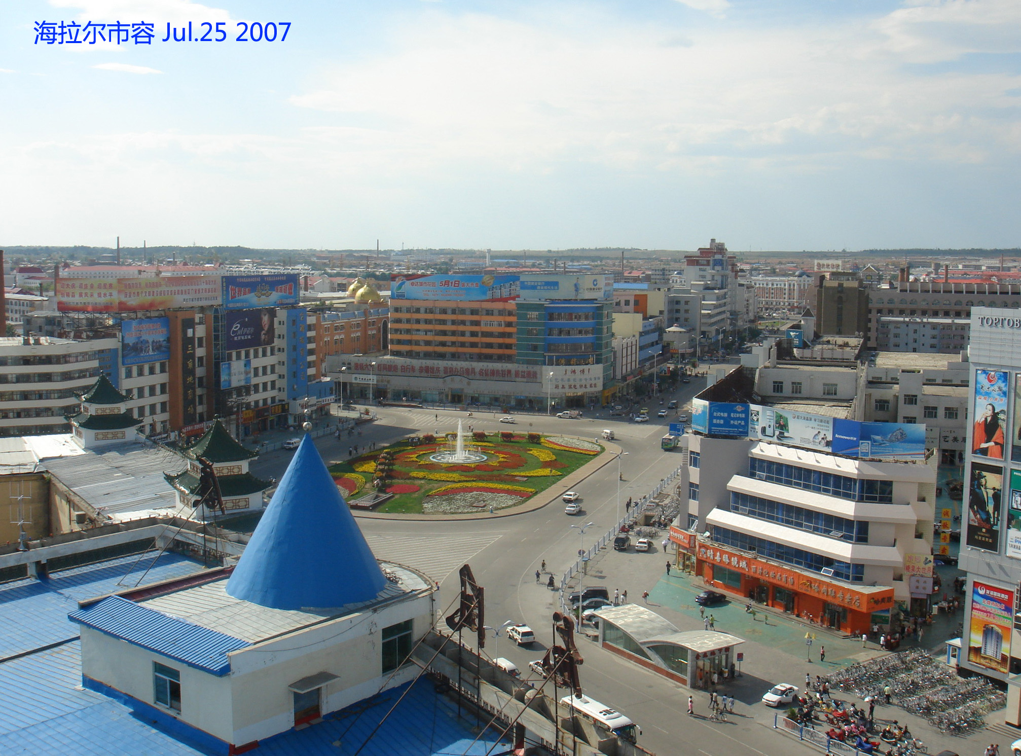 海拉尔市中心广场 the center of Hailar